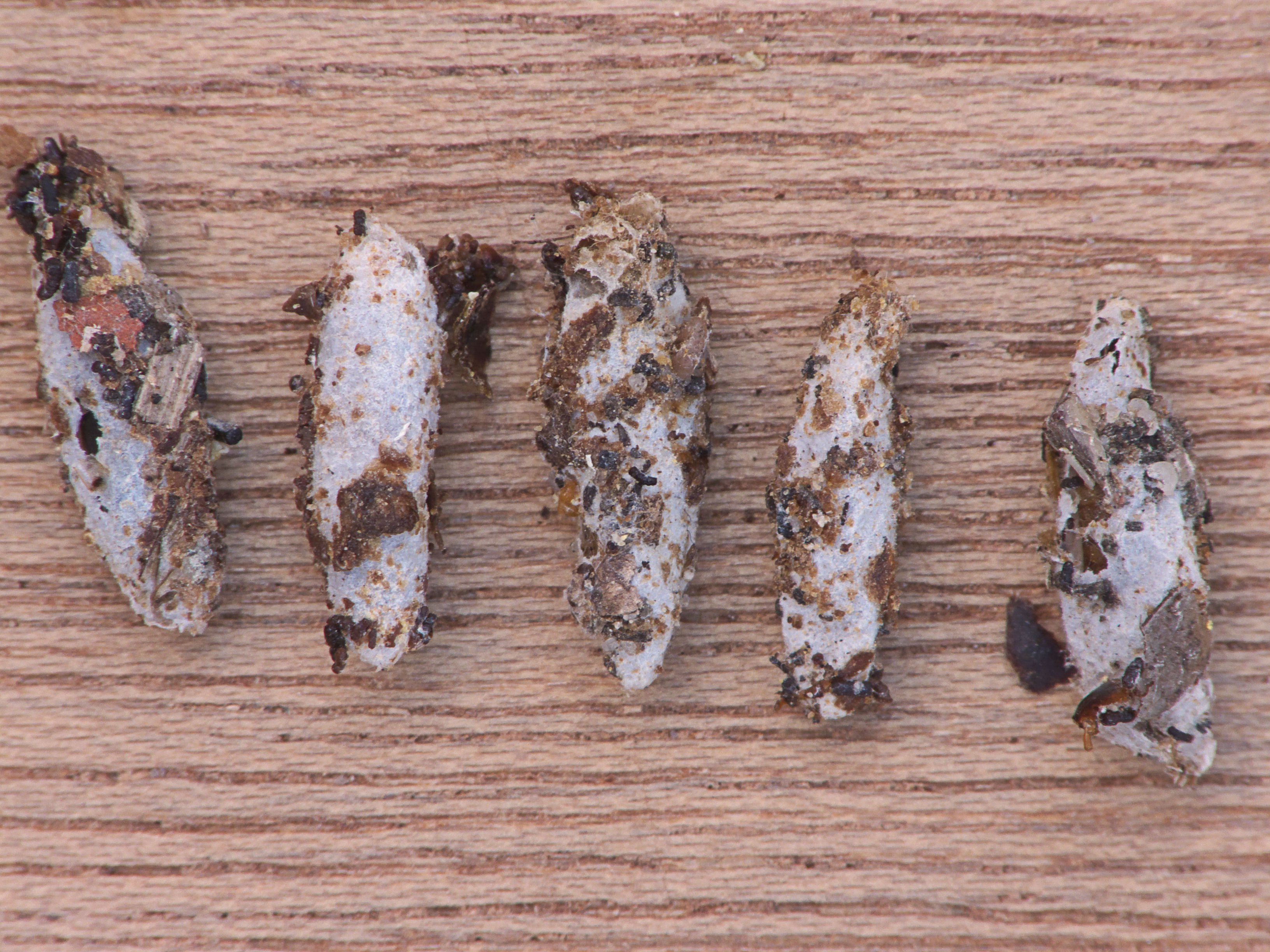 Achroia grisella cocoons, length 13-15 mm